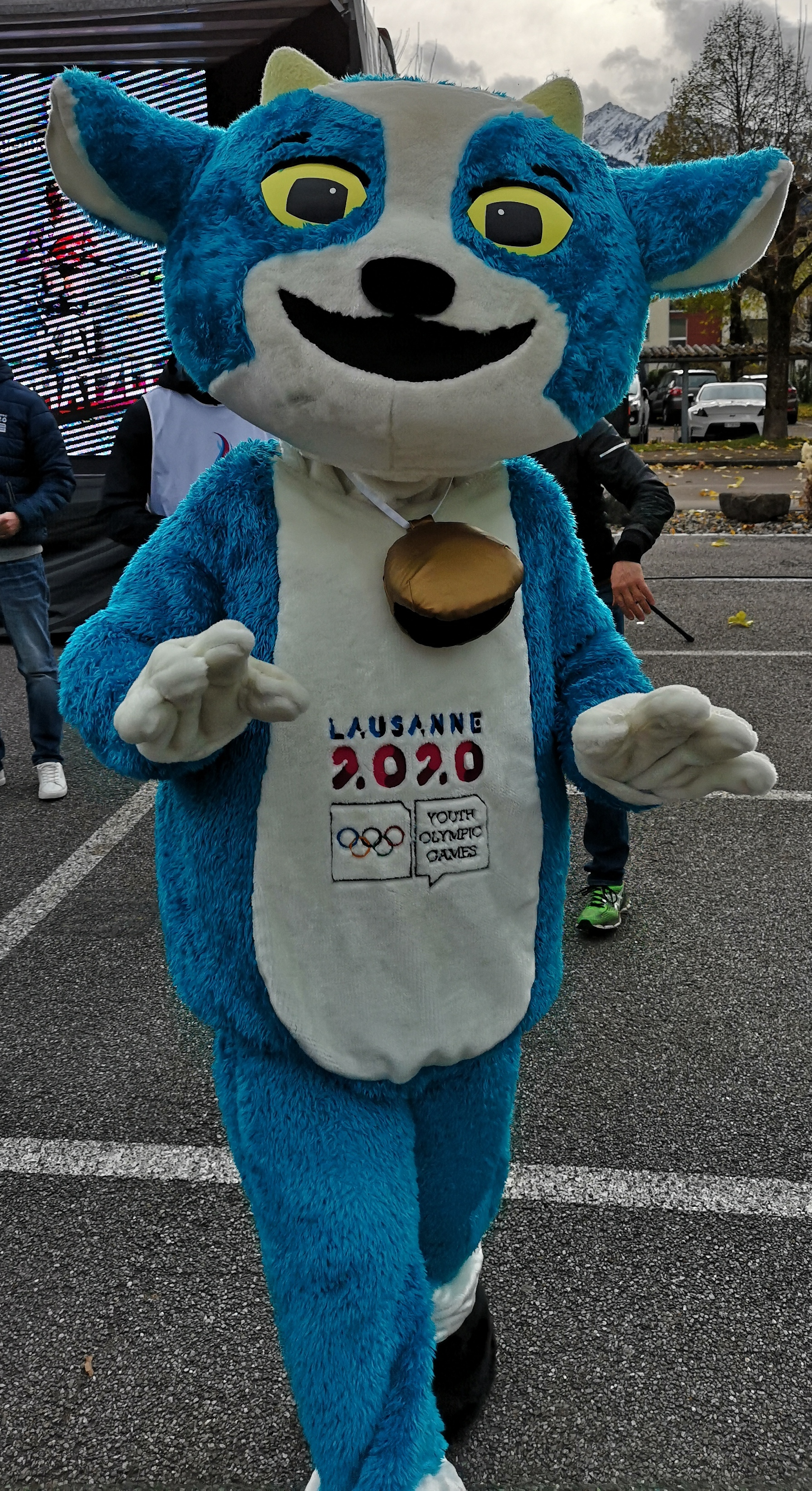 Yodli, mascot of the 2020 Winter Youth Olympics. Picture taken in Sarnen (Canton of Obwald) during the Torch Tour.